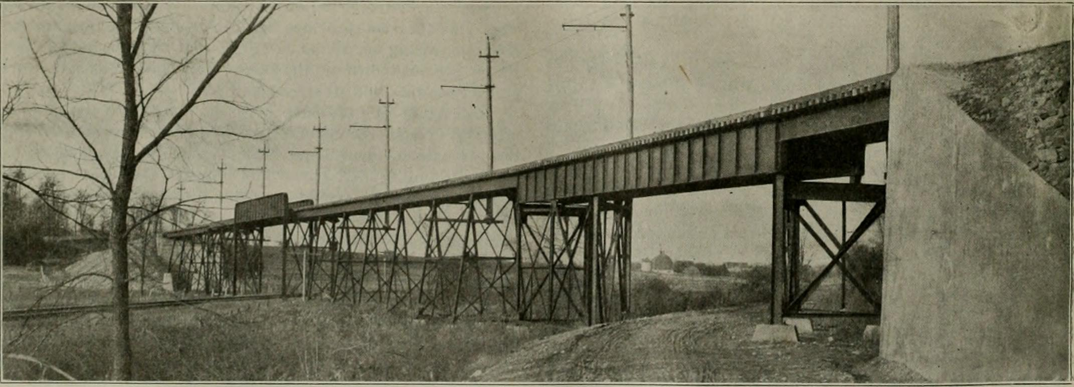 Title: Electric railway review Year: 1906 (1900s) Authors: American Street and Interurban Railway Association Subjects: Street-railroads Electric railroads Publisher: Chicago : Wilson Co Text Appearing Before Image: Milwaukee Northern Railway—Map of Territory Served, Show/-ing Operating and Proposed Lines. Milwaukee Northern Railway—Details of Pole Top Construc-tion for Single and Duplicate Transmission Circuits. with Sheboygan and Fond du Lac. Reference to the map of Railway were begun on October 10, 1905, and during the twothe route will show the territory which the completed system years following all franchises, including that for entrance towill serve. At the present time one track from Milwaukee Milwaukee, were secured, the construction work completed Text Appearing After Image: Milwaukee Northern Railway—Viaduct over St. Paul Railway Tracks and Cedarburg Highway. to Port Washington is in operation. About 75 per cent of theconstruction work has been completed on the Sheboyganextension and a second track between Milwaukee andCedarburg. The distance from Port Washington to Sheboy-gan is 27.7 miles. All surveys and engineering work havebeen completed on the 43-mile division indicated by the dotted and the road placed in operation. The preliminary work andthe financing and construction work were executed by theComstock-Haigh-Walker Company, Detroit, under the directsupervision of F. W. Walker as engineer. The Milwaukee Northern company is affiliated with theSheboygan Light Power & Railway Company and the opera- December 7, 1907. ELECTRIC RAILWAY REVIEW 883 lion of both roads is under the management of Ernest Gonzen-bach, who has been general manager of the Sheboygan prop-erties during the past three years. Roadbed and Bridges. With the exception of 3.25 rou